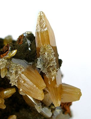 Wulfenite Locality: San Juan Poniente, Ojuela Mine, Mapimí, Municipio de Mapimí, Durango, Mexico (Locality at ) Size: miniature, 5.6 x 4.7 x 3.8 cm WULFENITE (bipyramidal) A dramatic piece with 3 doubly-terminated elongated crystals measuring 1.75 cm or so, sequentially arranged across the top. Oddly, tiny clusters of sparkly, translucent calcite are perched at the midpoint of each of the large doubly-terminated crystals - the first such instance I have noticed of this here. large crystals, elegantly displayed, a very unique specimen overall!